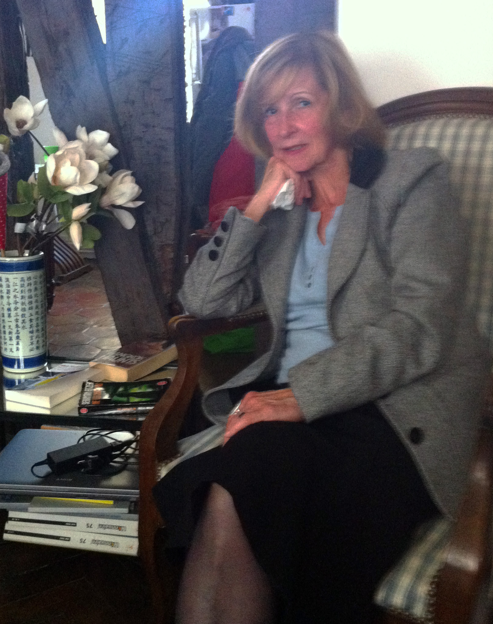 Eve Gran-Aymerich, french Archaeologist